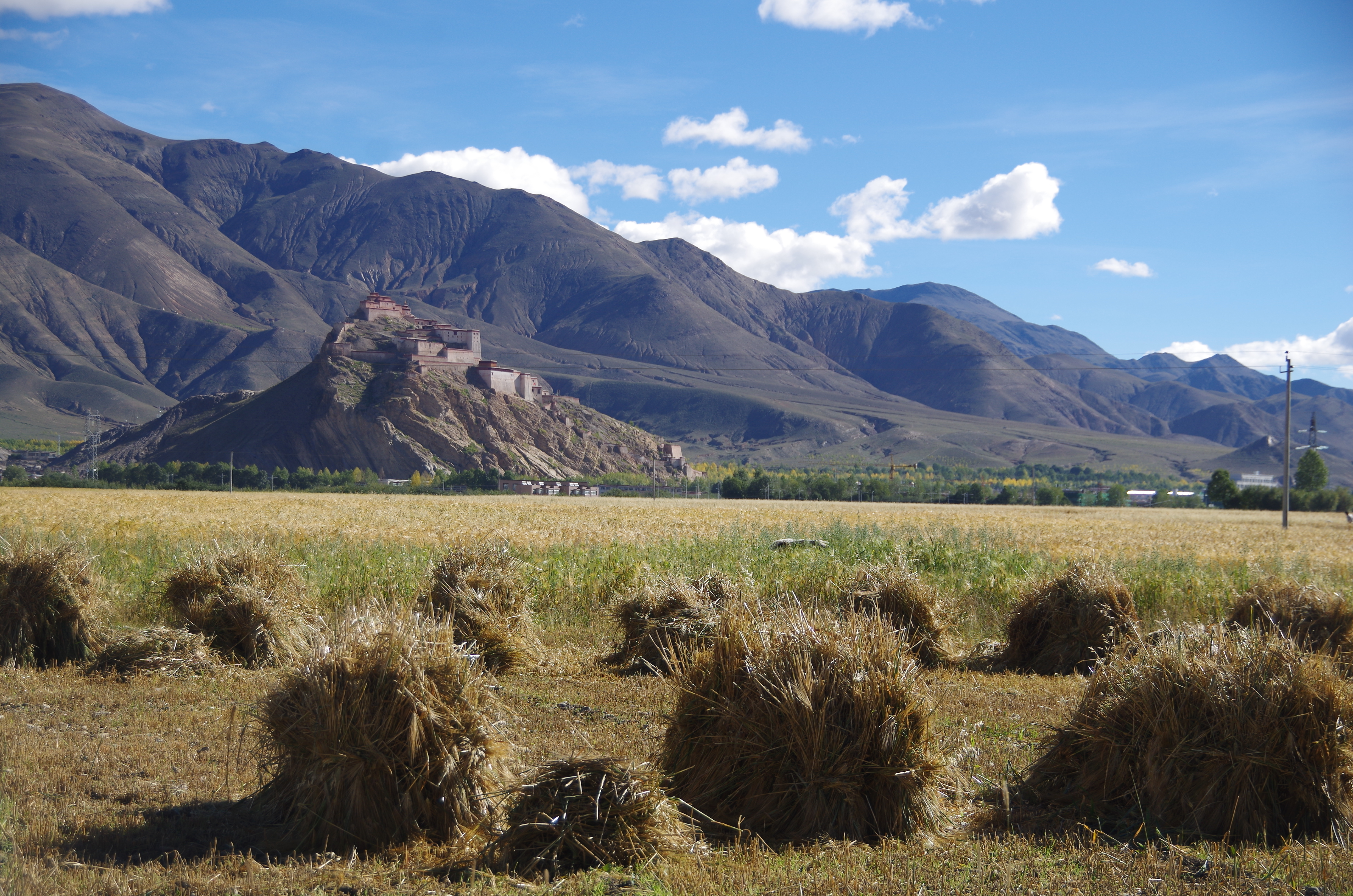 Gyantse Dzong in Nyang Chu valley, Tibet, China, September 2015